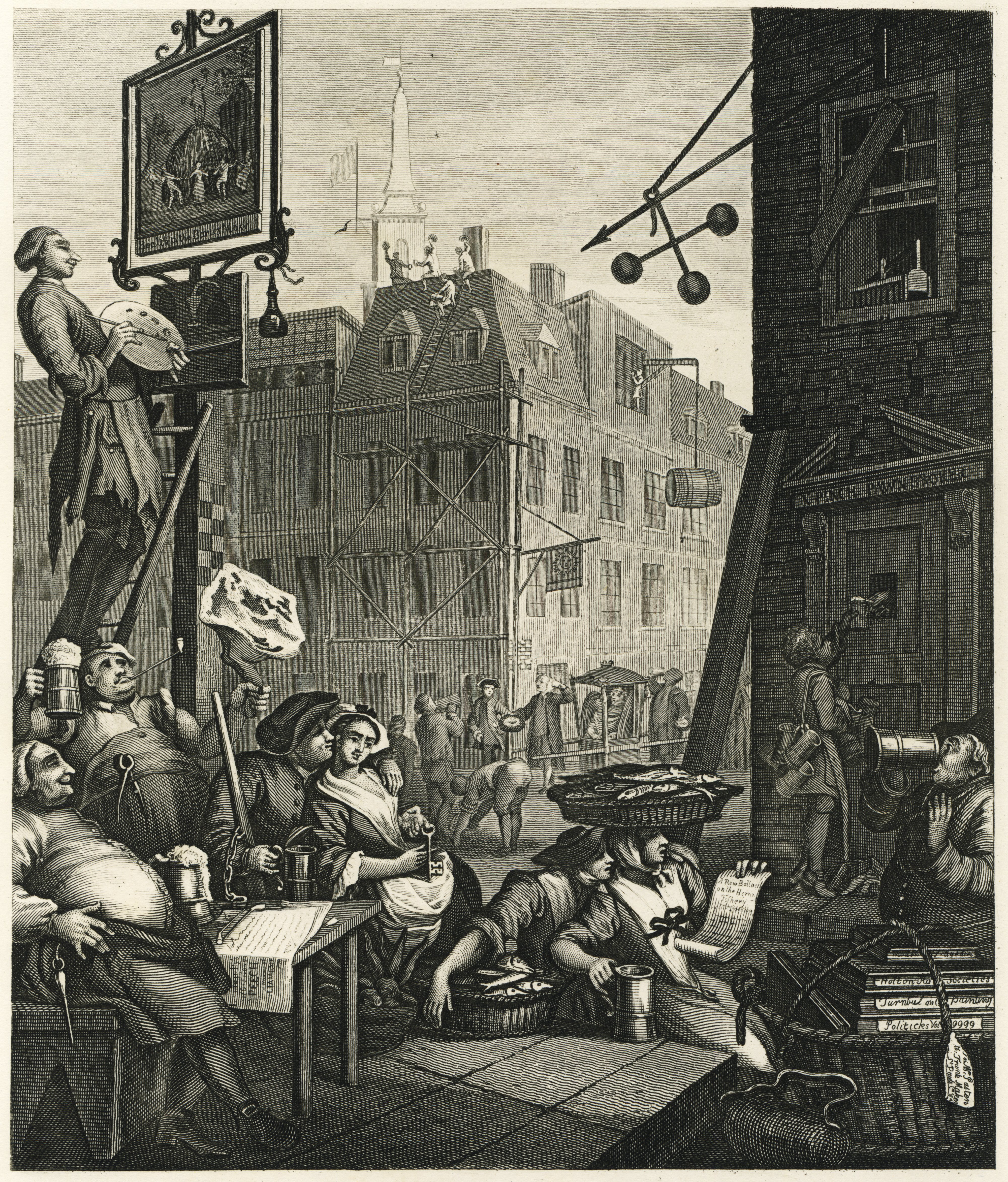 Beer Street, from Beer Street and Gin Lane The accompanying poem, not printed in this reissue, reads: Beer, happy Produce of our Isle Can sinewy Strength impart, And wearied with Fatigue and Toil Can cheer each manly Heart. Labour and Art upheld by Thee Successfully advance, We quaff Thy balmy Juice with Glee And Water leave to France. Genius of Health, thy grateful Taste Rivals the Cup of Jove, And warms each English generous Breast With Liberty and Love!